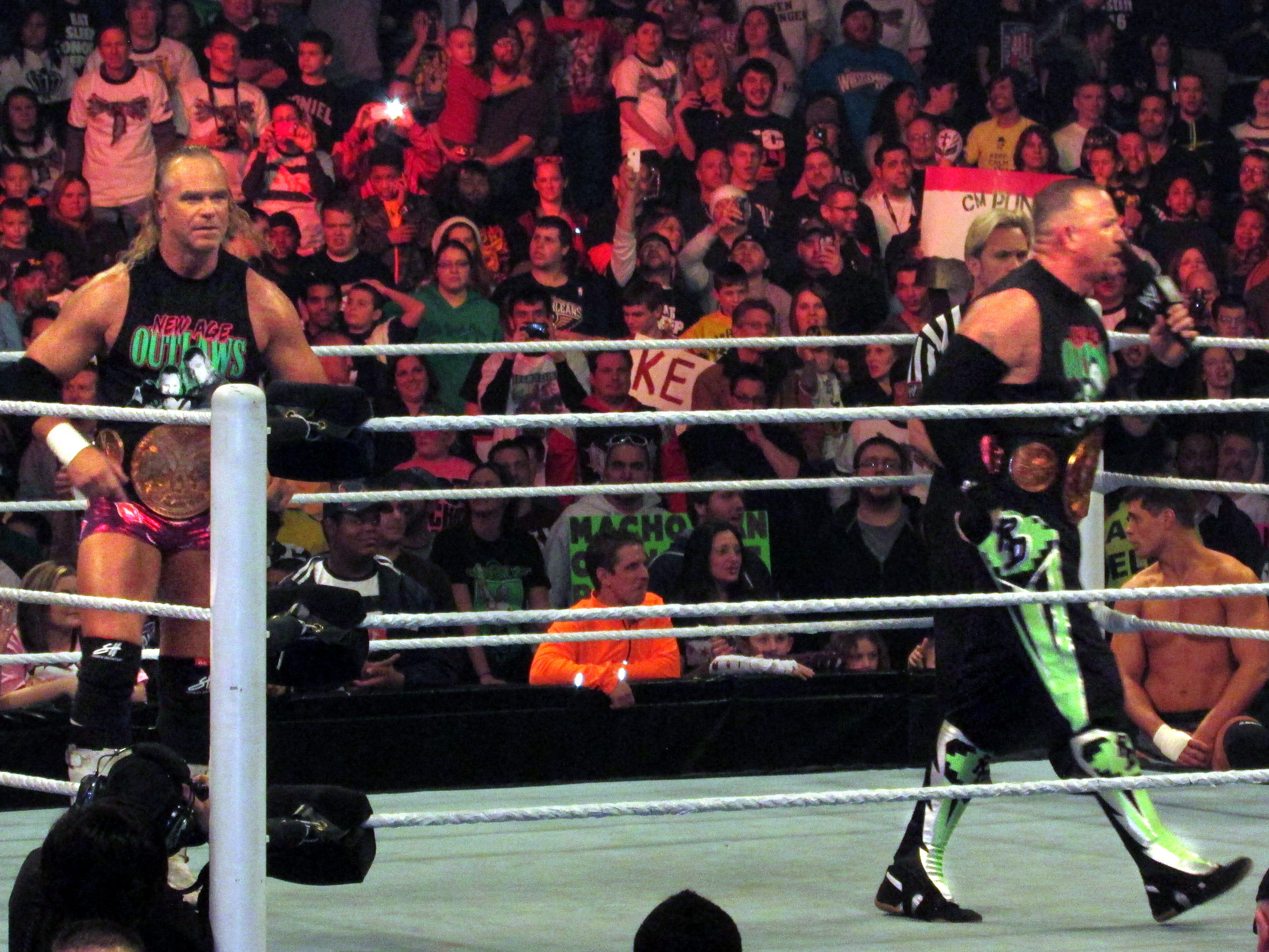 The New Age Outlaws (Billy Gunn, left, and Road Dogg, right) as the WWE Tag Team Champions on Raw on January 27, 2014. Cropped from original.